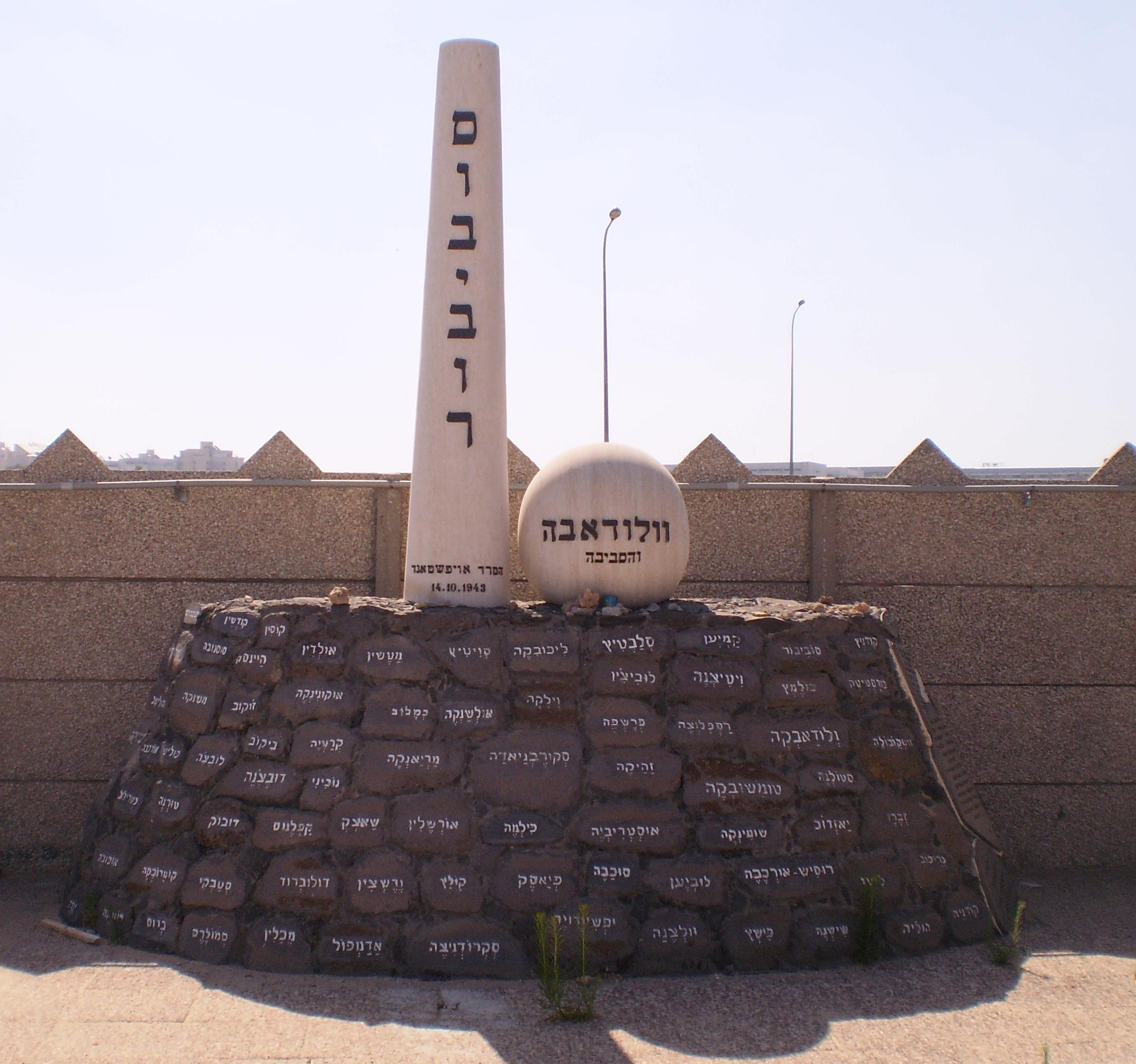 Włodawa Jewery Holocaust memorial at Holon Cemetery, Israel